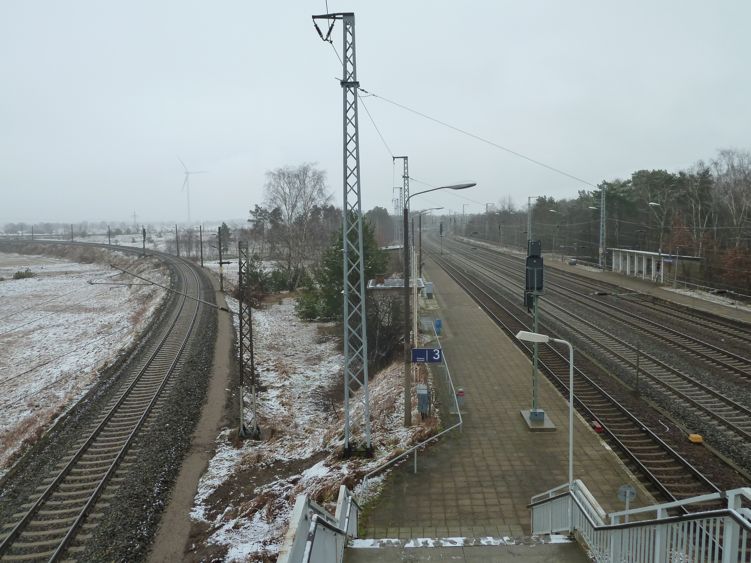 Station Genshagener Heide, view on station